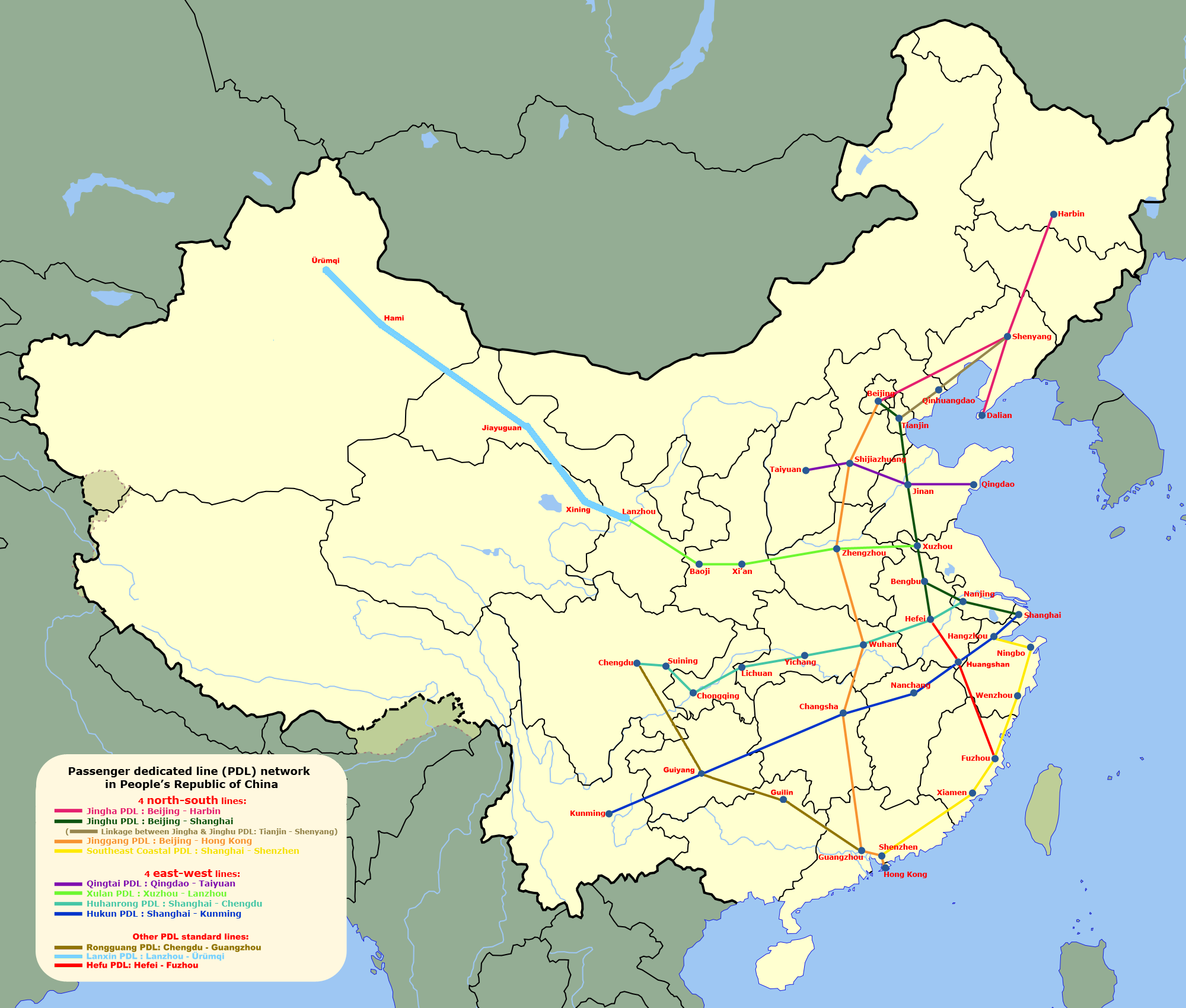 Lanxin High-Speed Railway in China.